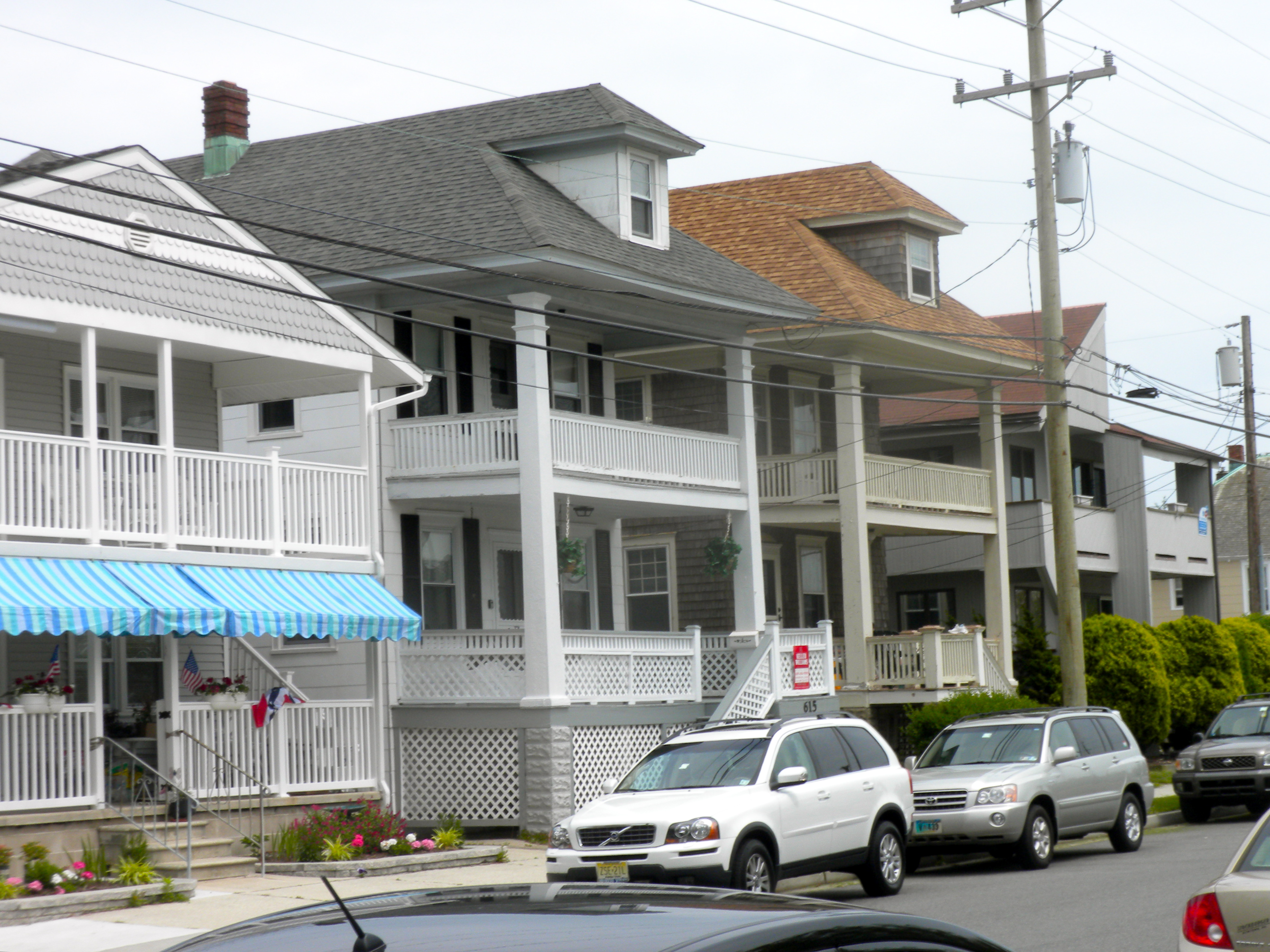 Houses in Ocean City Residential Historic District which has been on the NRHP since March 20, 2003 HD roughly bounded by 3rd and 8th Sts. and Central and Ocean Aves., Ocean City, New Jersey. This is right across the street from the tennis courts and around the corner from the High School.